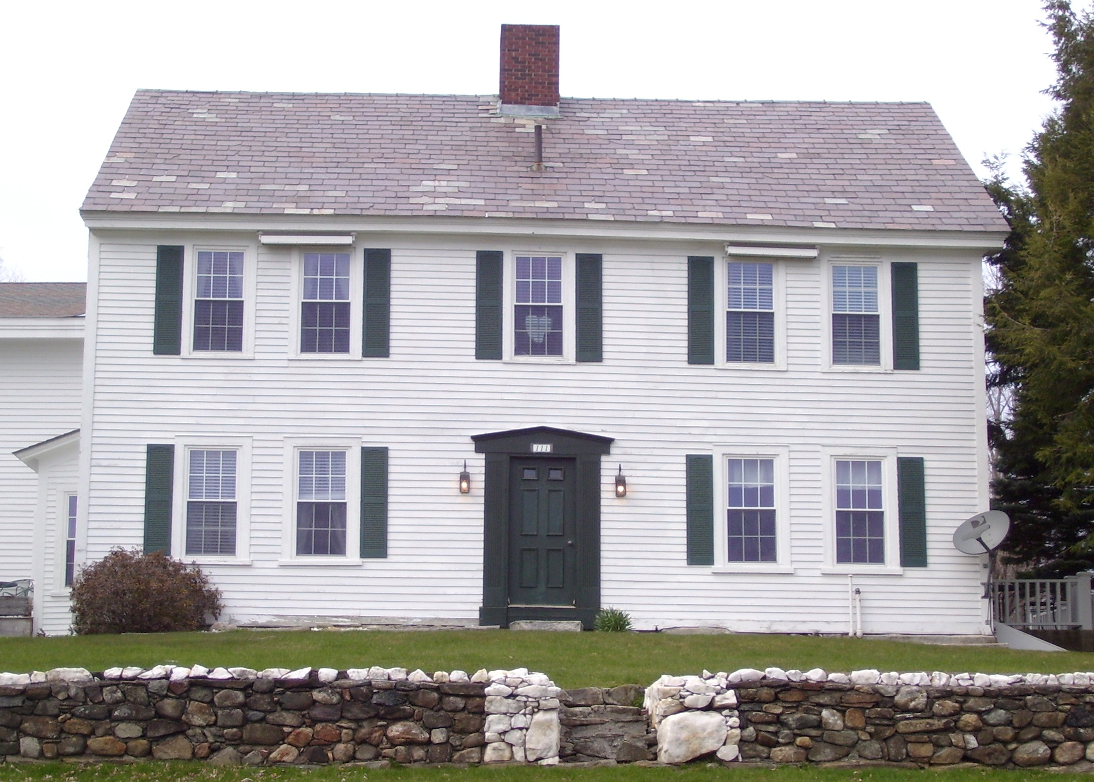 The Colonel Williams Inn on the Molly Stark Trail (State Route 9) in Marlboro, Vermont was built c.1769. (Source: Colonel Williams Inn website)